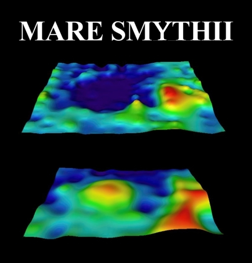 This figure shows the topography (top) and corresponding gravity (bottom) signal of Mare Smythii at the Moon. It nicely illustrates the term "mascon".